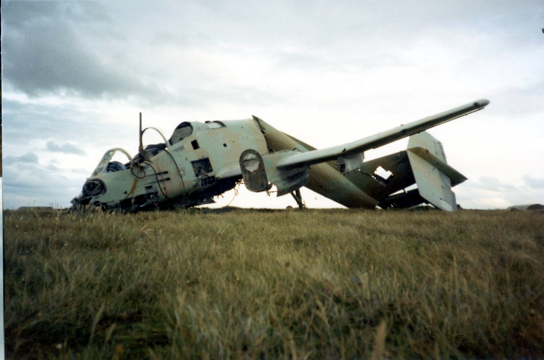 Falkland Islands, Stanley Airport, FMA-58 Pucara, bent and buckled.